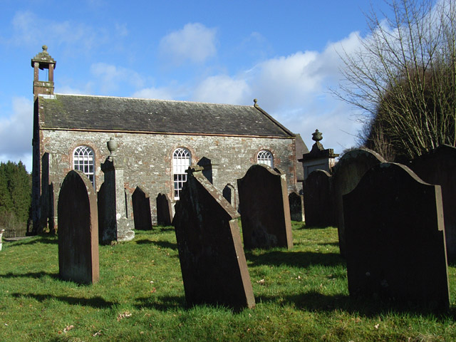 Wamphray church Built 1834.